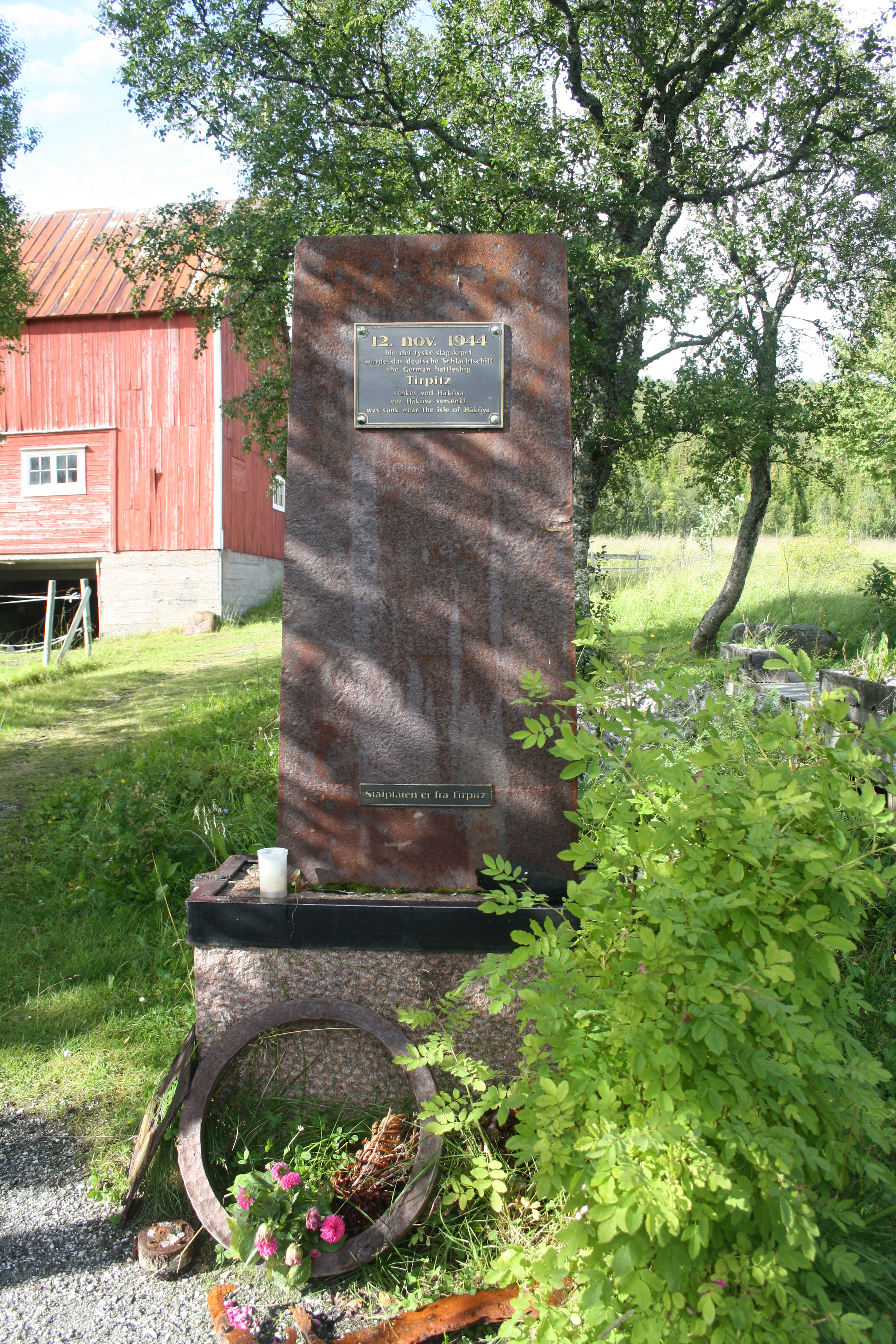 Monument for sinking of German battleship "Tirpitz" on Håkøya island, Tromsø, Norway